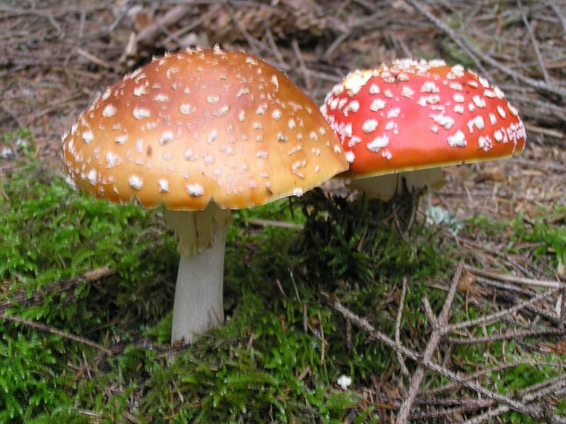 Amanita muscaria